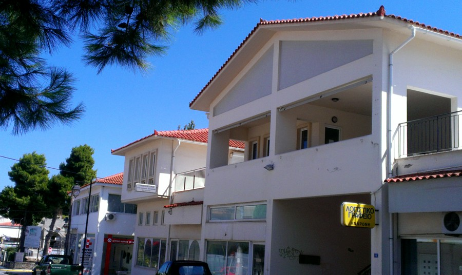 spitia